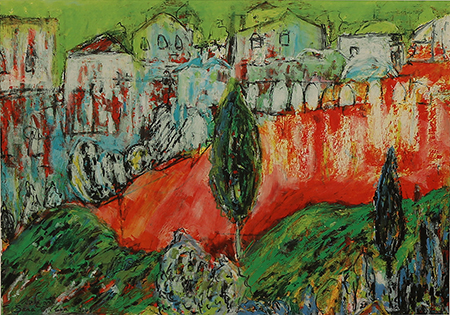 נוף באדום